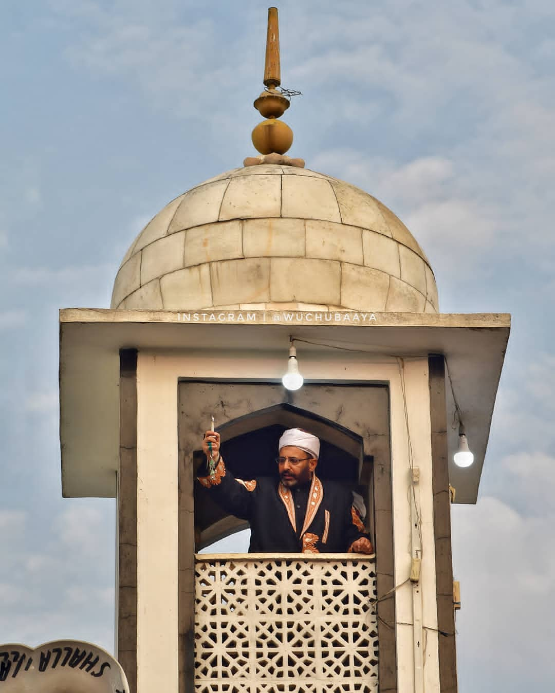 This is a picture taken from outside the shrine when the head cleric diaplays the relic to the public